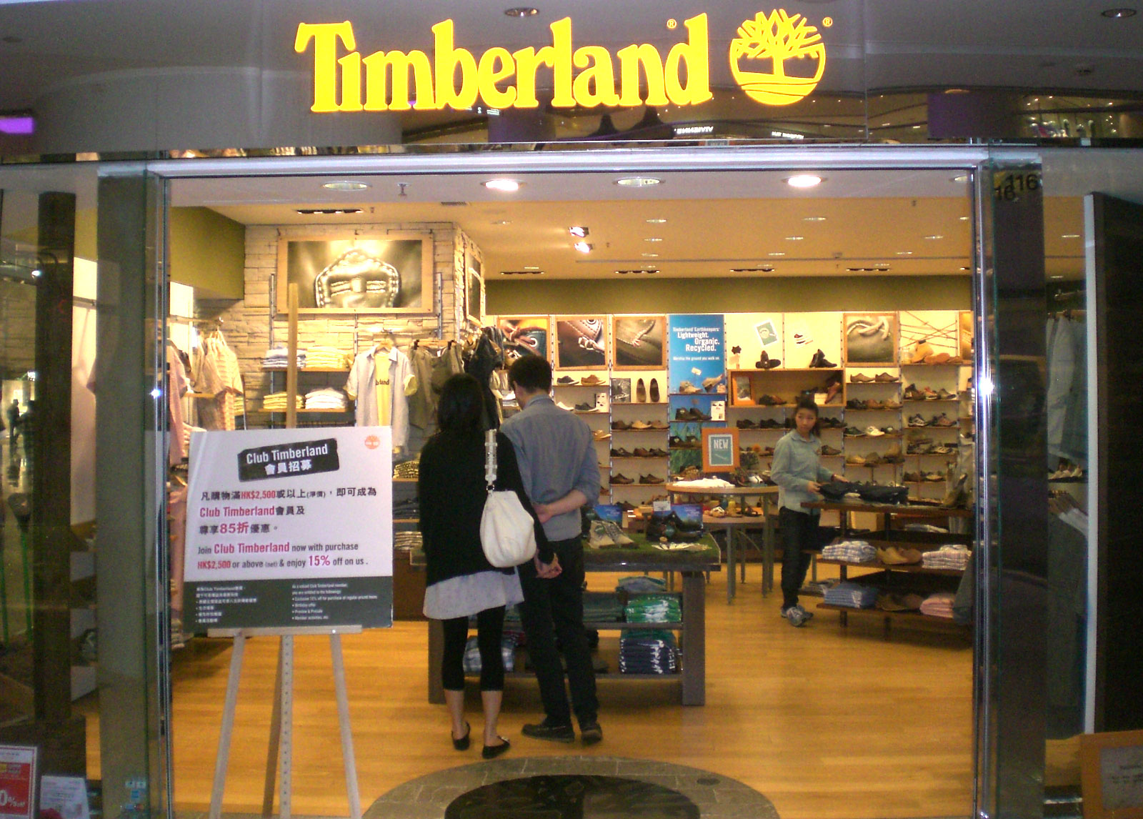 The Timberland Company outlet @ Pacific Place, Hong Kong.